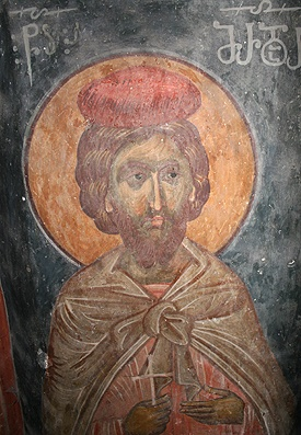 Zarzma fresco fragment